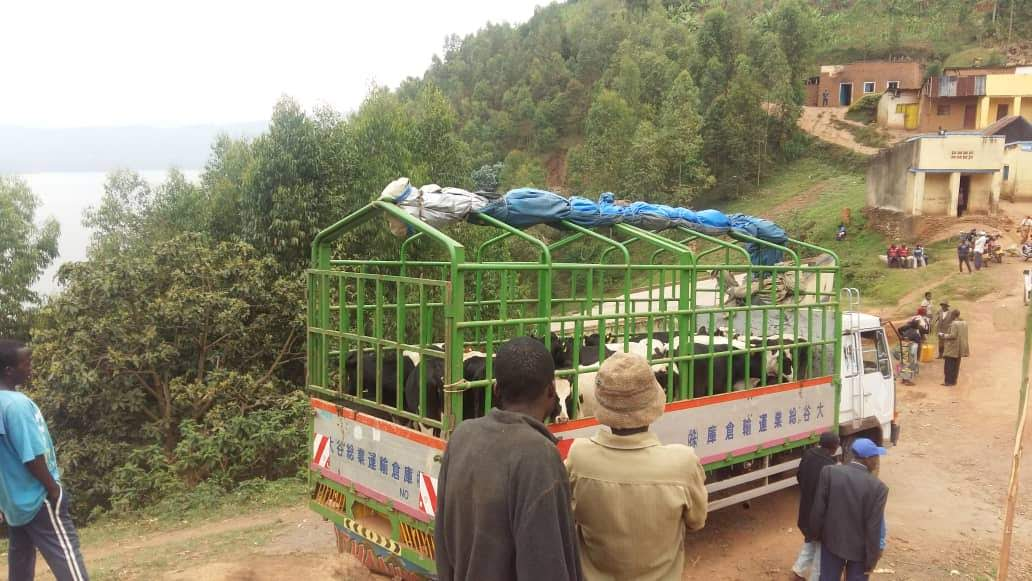 This is an image with the theme "Africa on the Move or Transport" from: Rwanda